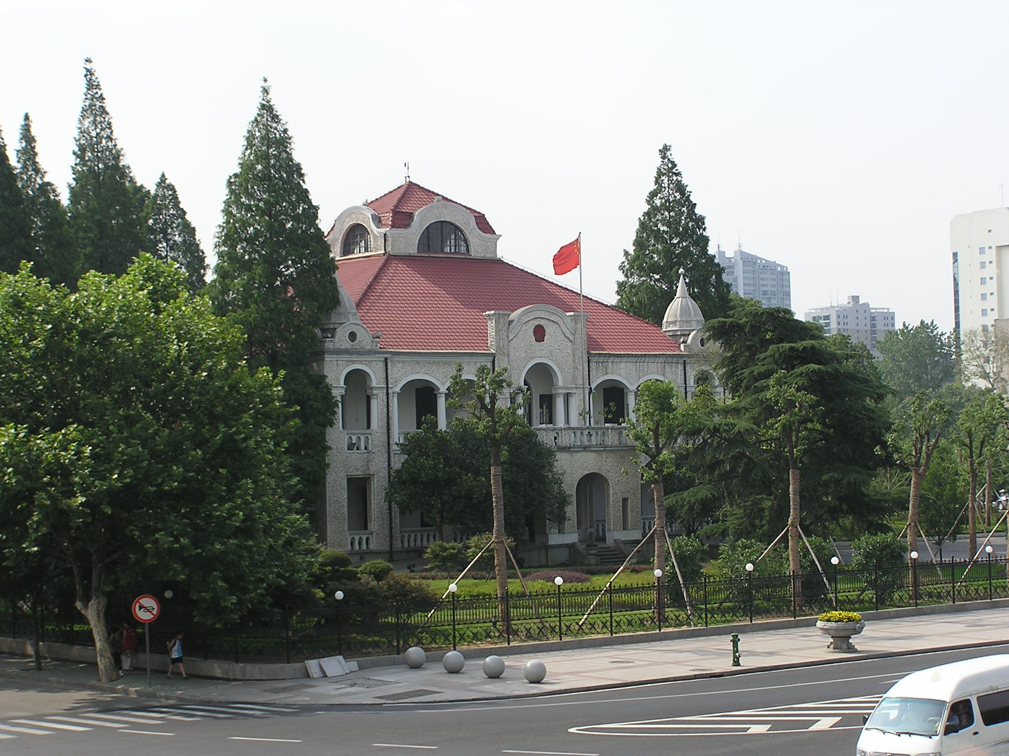 Former German consulate in Hankou, Wuhan. Built 1895.